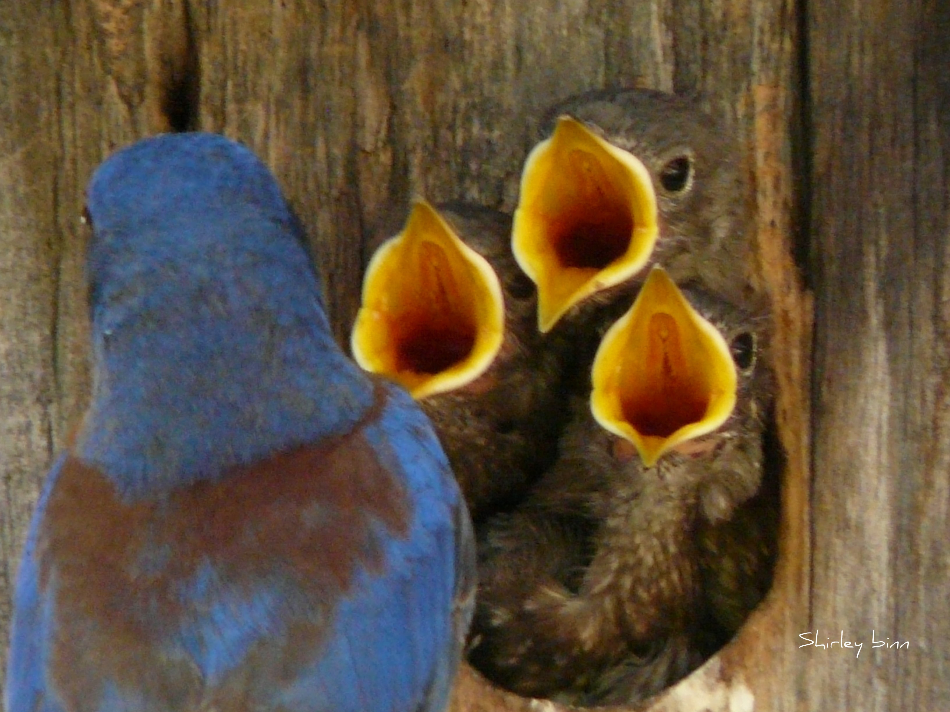 A Western Bluebird adult feeding chicks in a nestbox.